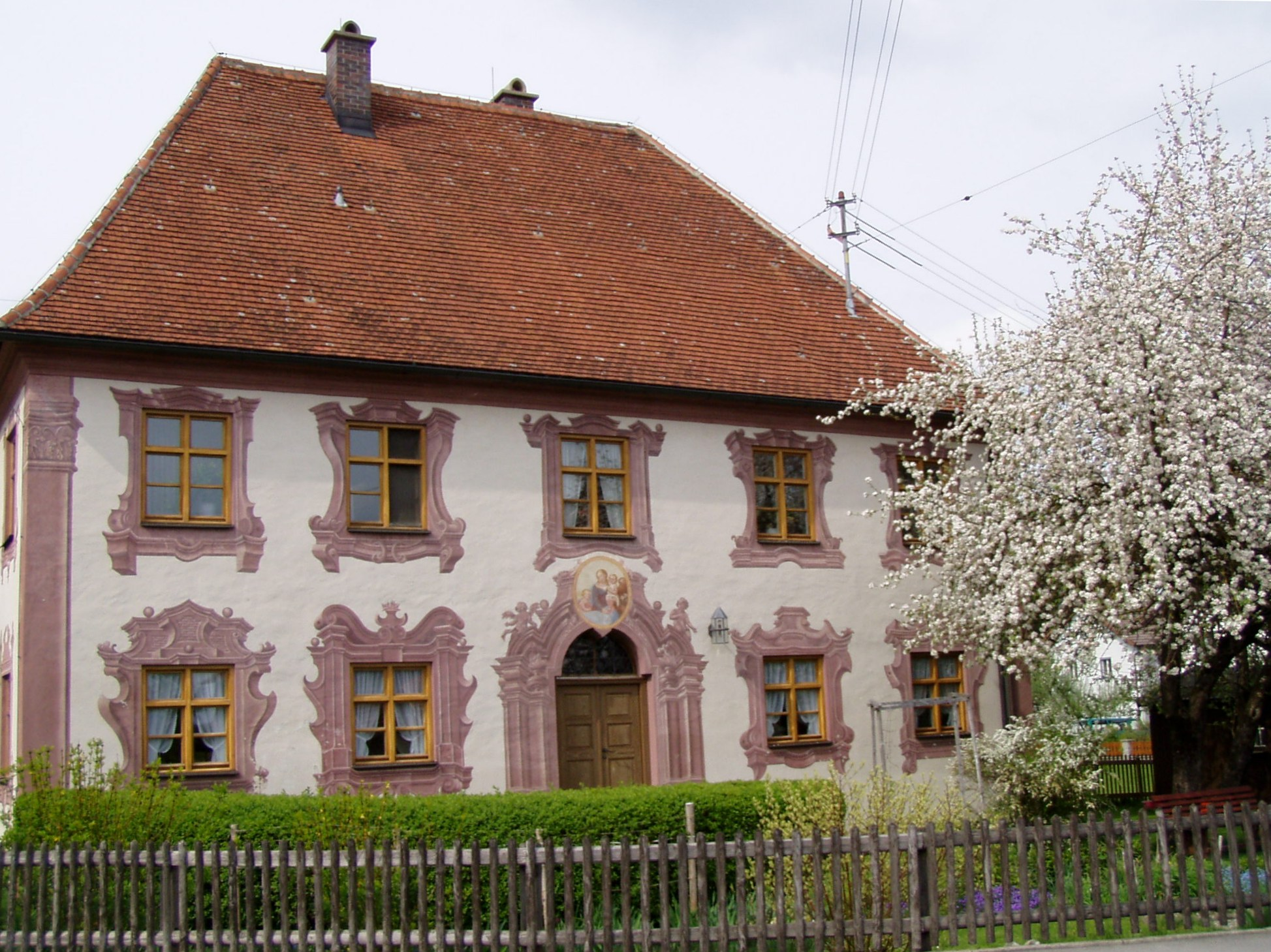 Pfarrhof Geisenried, Stadt Marktoberdorf